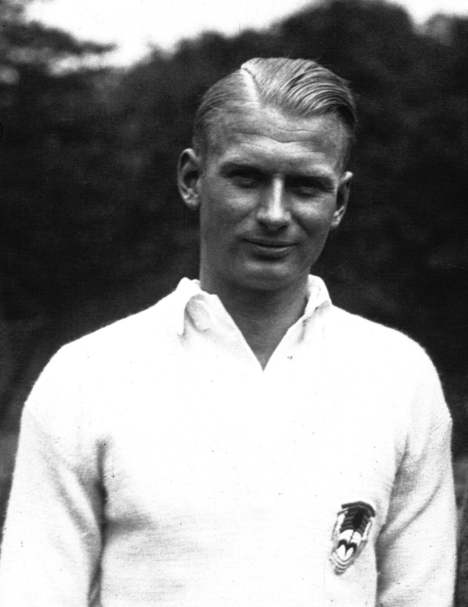 Stade Roland Garros, French Championships, Paris, France, 1928, Hendrik Timmer, Ducth tennis player